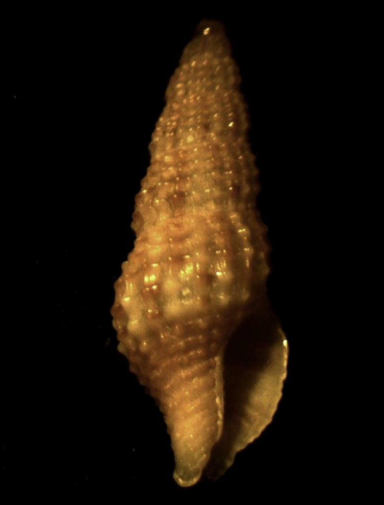 Nassarina perata A. M. Keen, 1971, a dove snail from the family Columbellidae; Panama